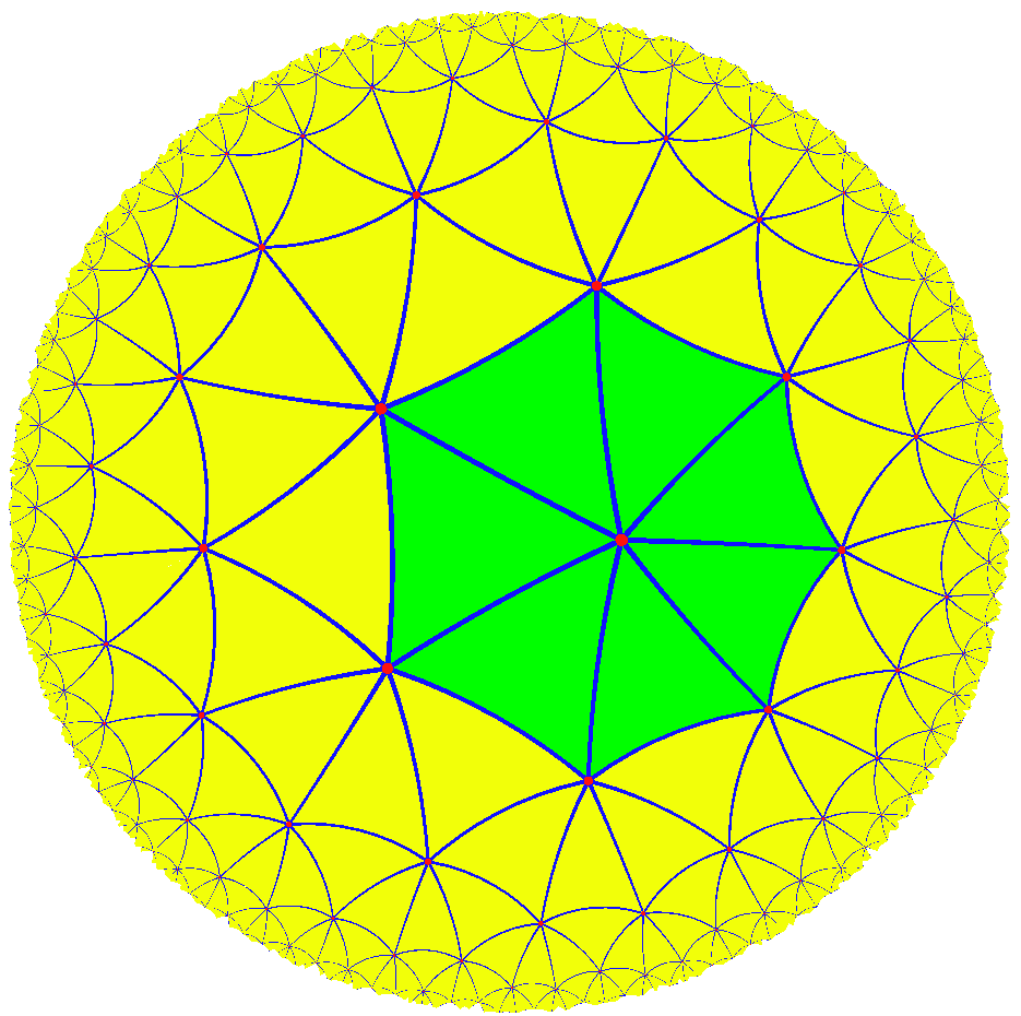 2,3,7 group with some parts of the tiling highlighted